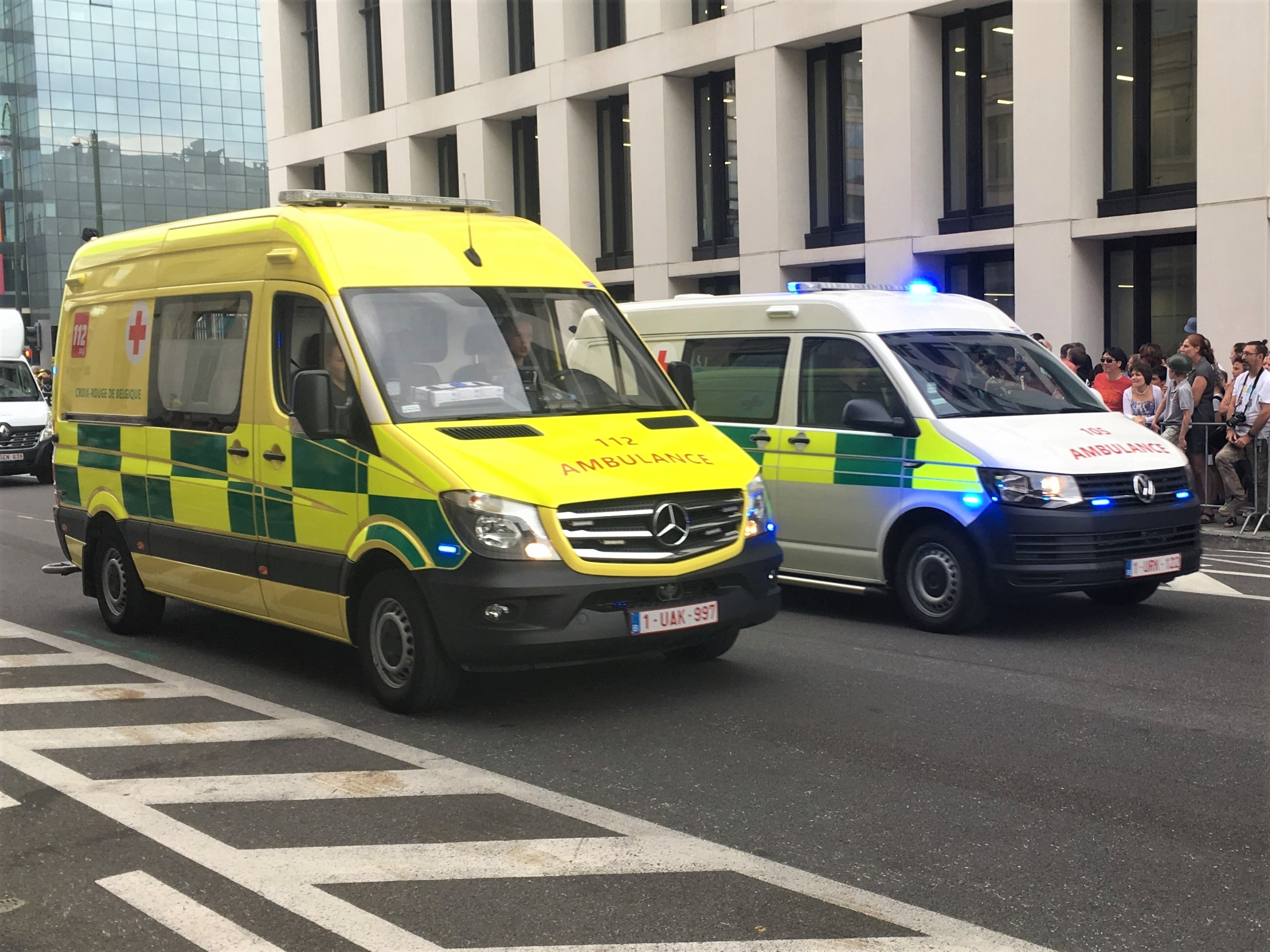 Belgian ambulances for emergency and non-emergency transports of the Red Cross with Battenburg colors during the National Parade on July 21, 2018 (frontside)